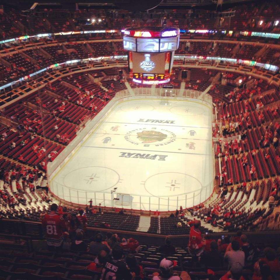 Just before Game 2 of the 2013 Stanley Cup Finals at the United Center.